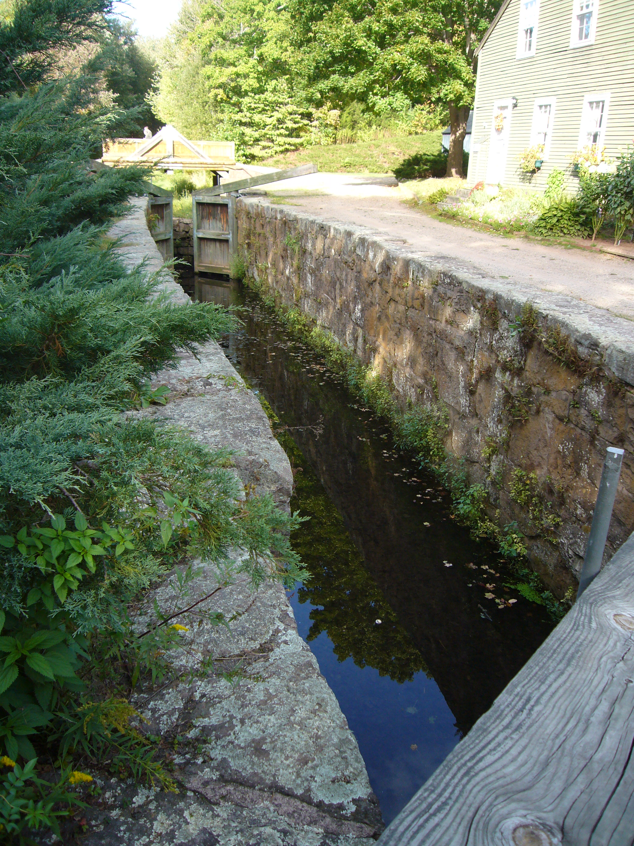 Lock number 12 on the Farmington Canal in Cheshire, CT (US). Photo taken by User:Staib on 30 September 2007.